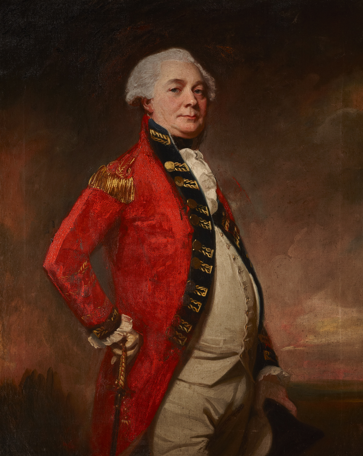 Portrait of Brigadier-General Lawrence Nilson